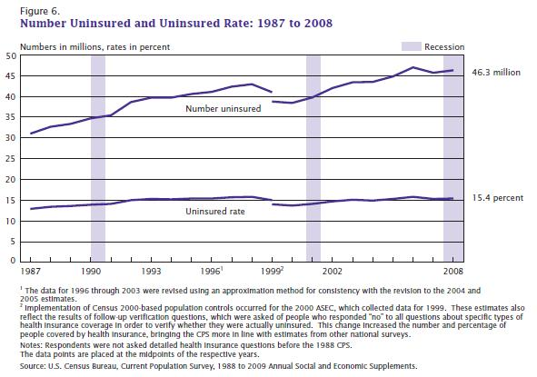 This image depicts the numbers of uninsured Americans and the uninsured rate from 1987 to 2008.